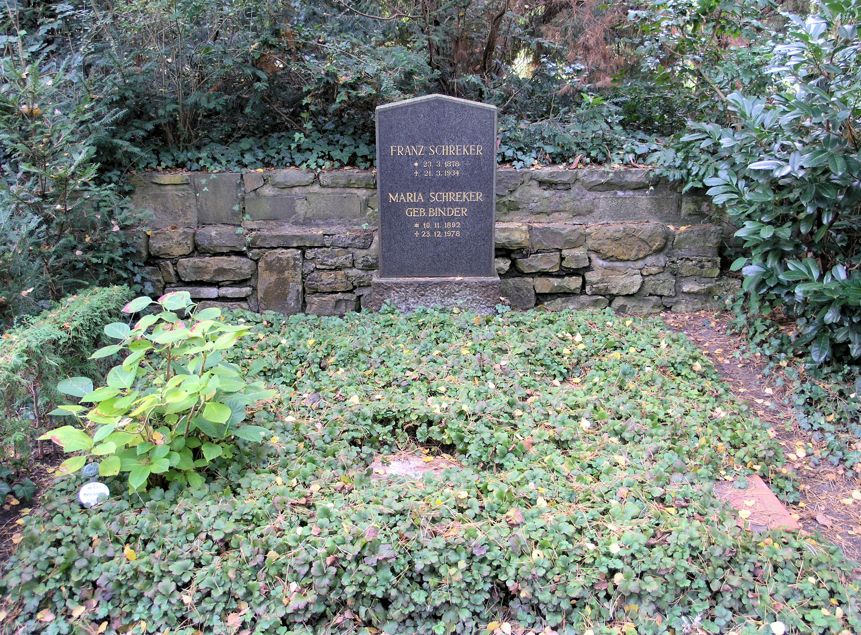 "Ehrengrab" (grave of honor), Franz Schreker, Hüttenweg 47, Berlin-Dahlem, Germany